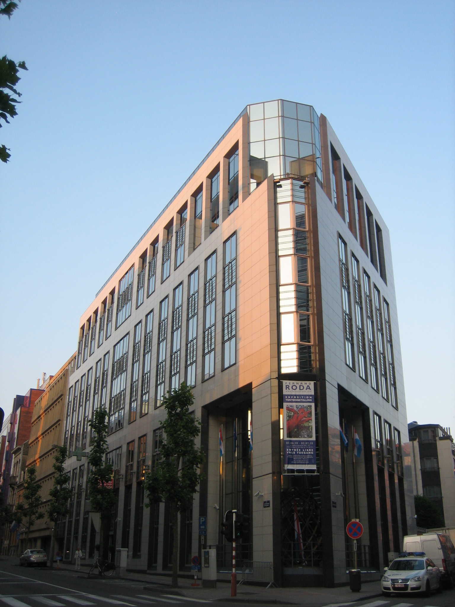 Maison du Luxembourg in Brussels, housing i.al. Embassies of the Grand-Duchy of Luxembourg to the Kingdom of Belgium, to the European Union and to NATO, as well as the luxembourgish consulate.